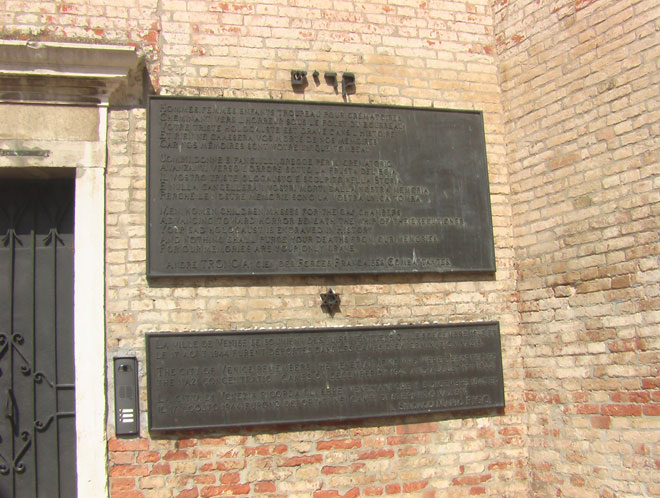 Venice_holocaust_memorial_sign. Credit: Courtesy of Arie Darzi to memorialize the Jewish community in Italy.